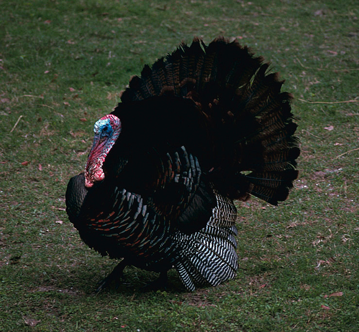 Eastern Wild Turkey